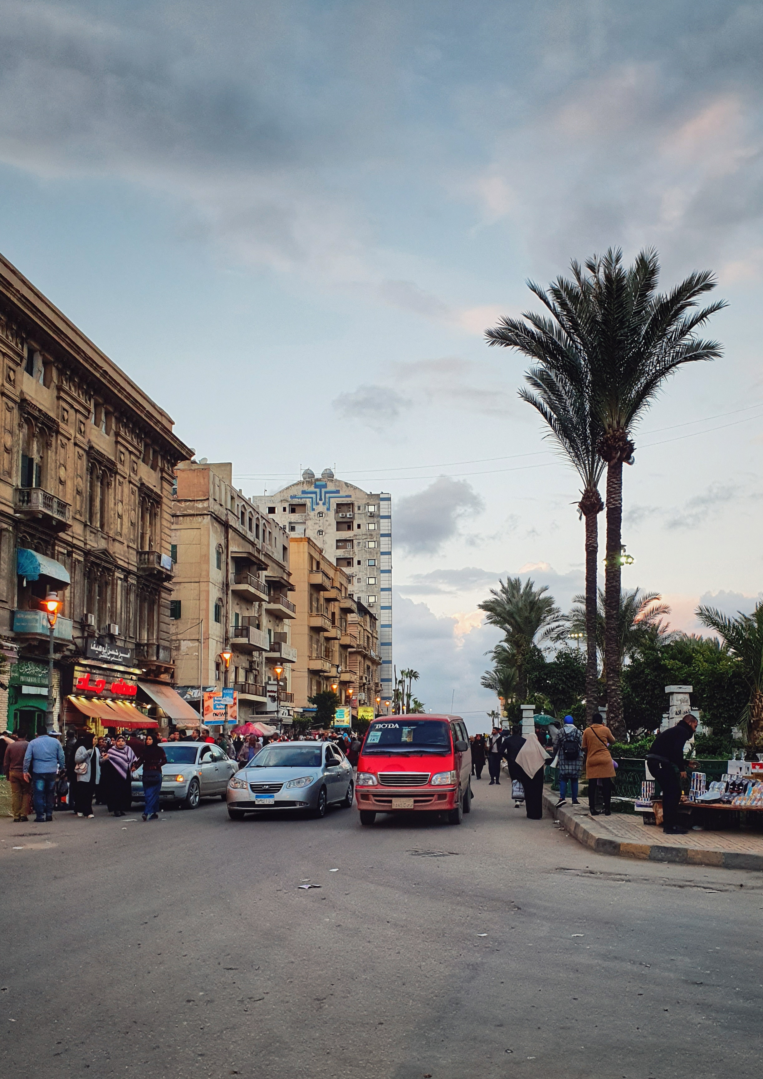 تصوير موبيل This is an image with the theme "Africa on the Move or Transport" from: Egypt